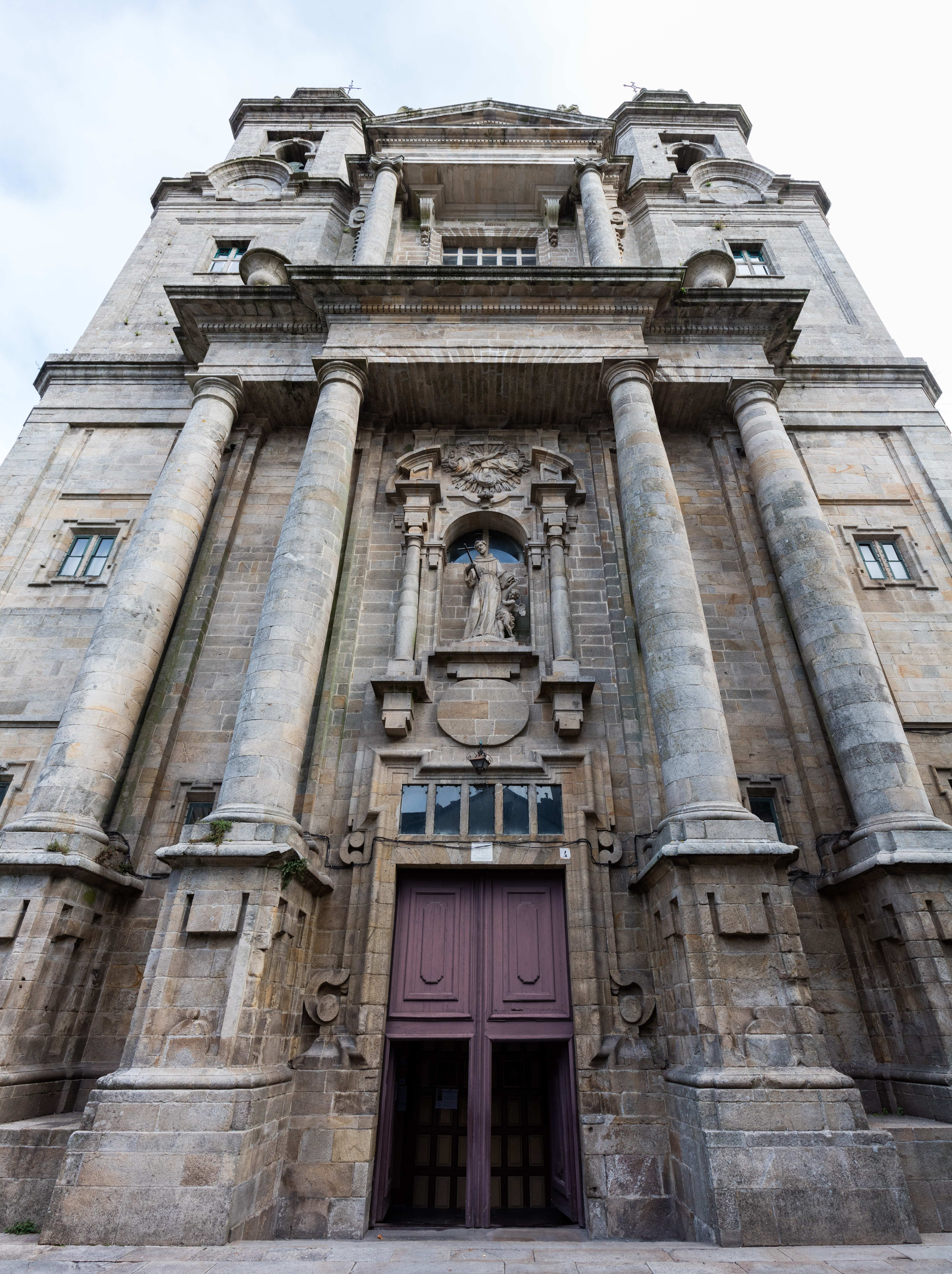 St Franciscus Monastery, Santiago de Compostela, Spain